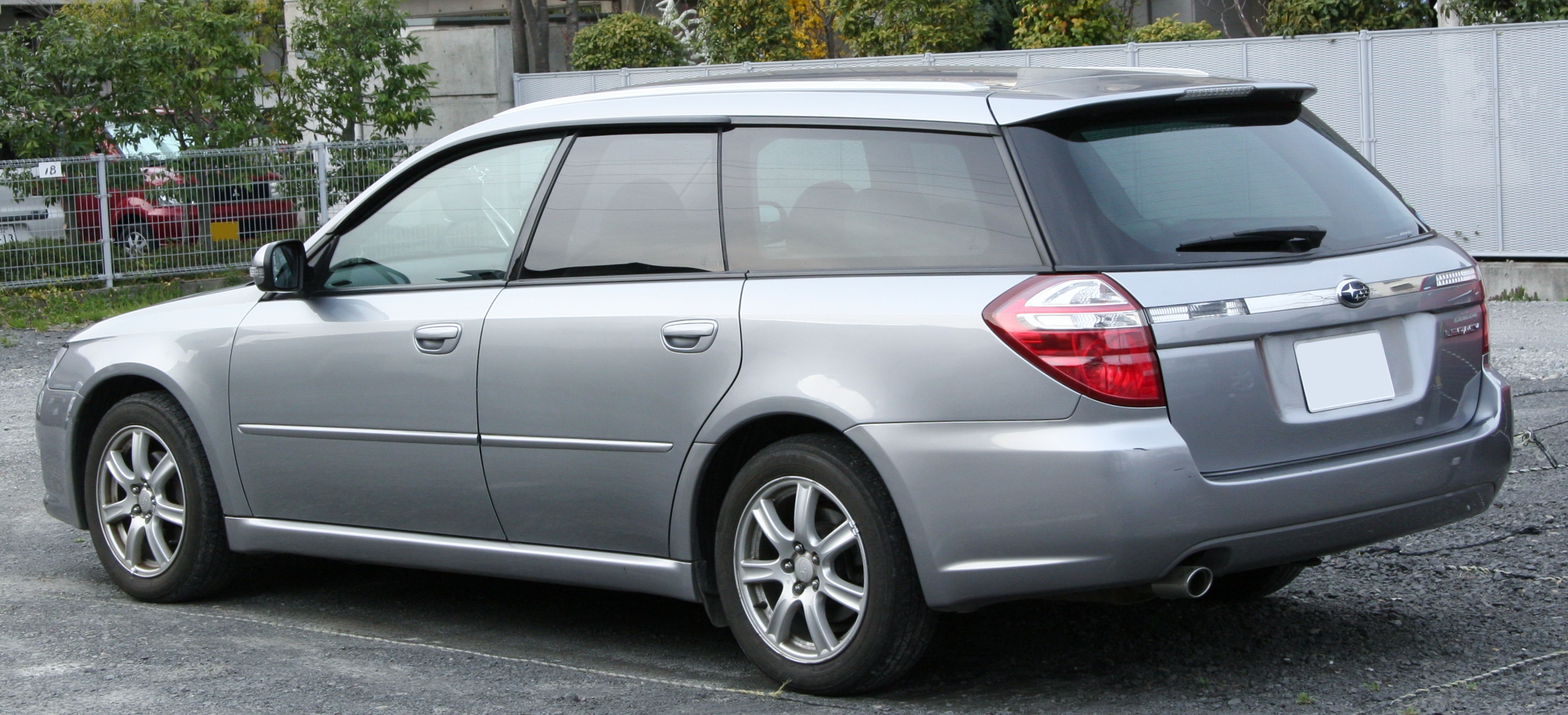 Subaru Legacy 2.0i Touring Wagon